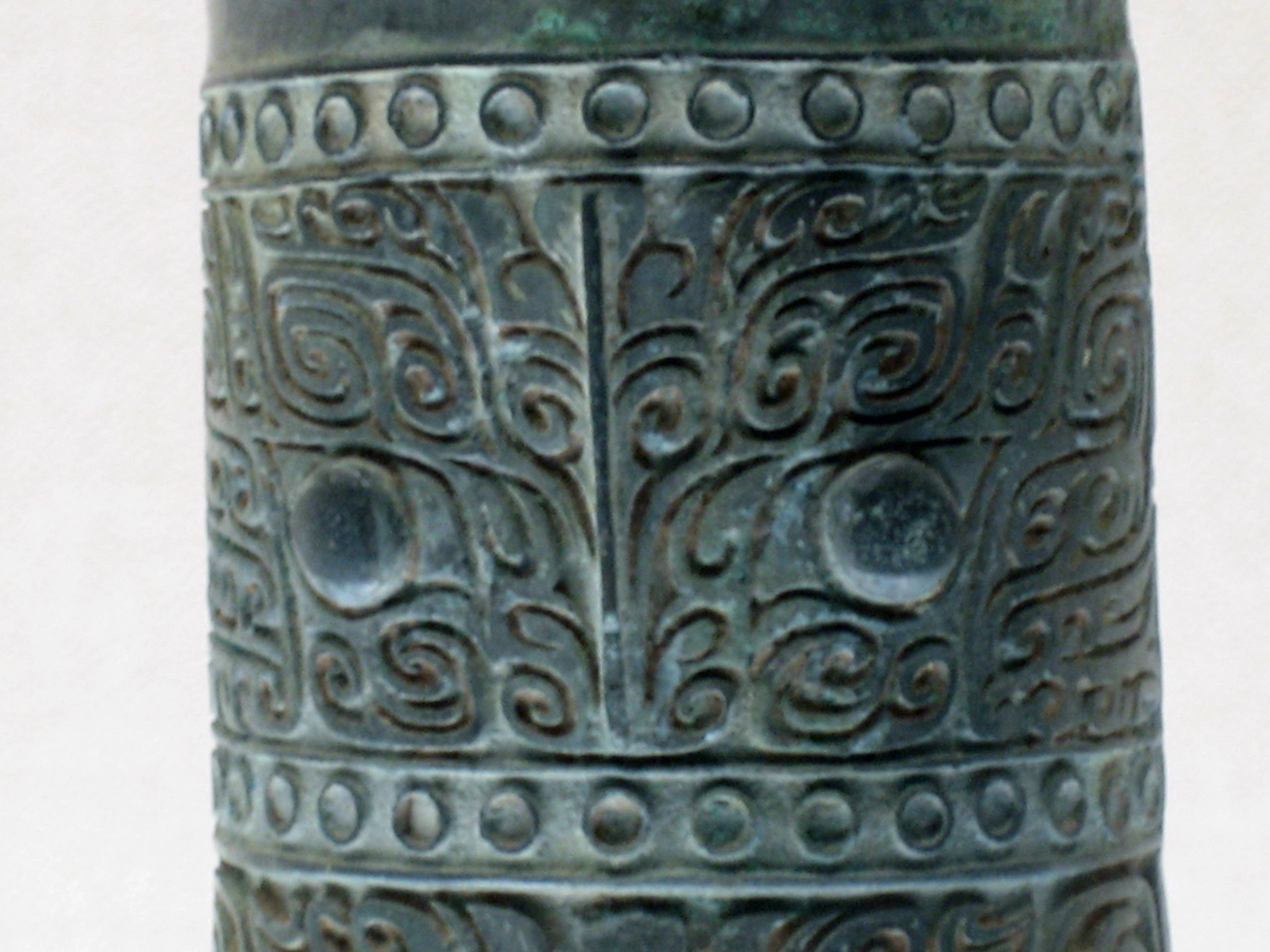 A taotie, an animal mask motif, on a Gu of the Middle Shang dynasty, Shanghai Museum.